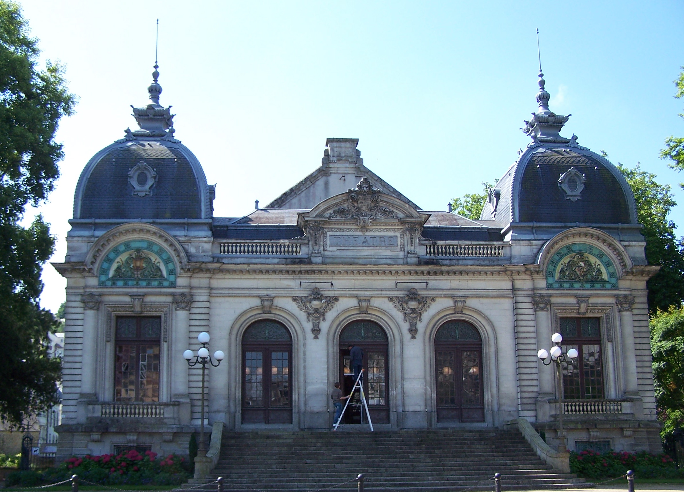 Théâtre Max-Jacob de Quimper construit en 1908.